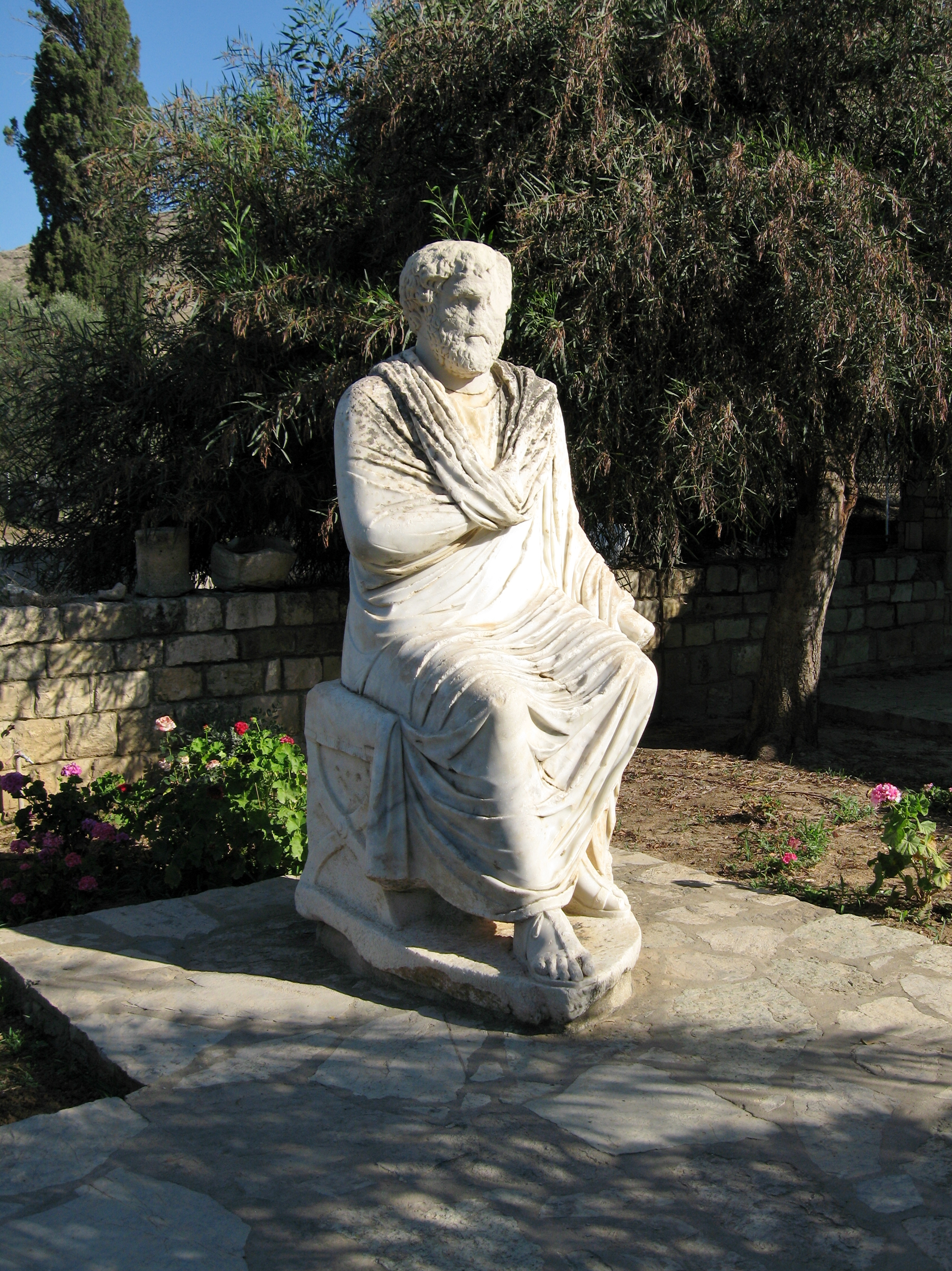 Gortyn, Crete, Greece